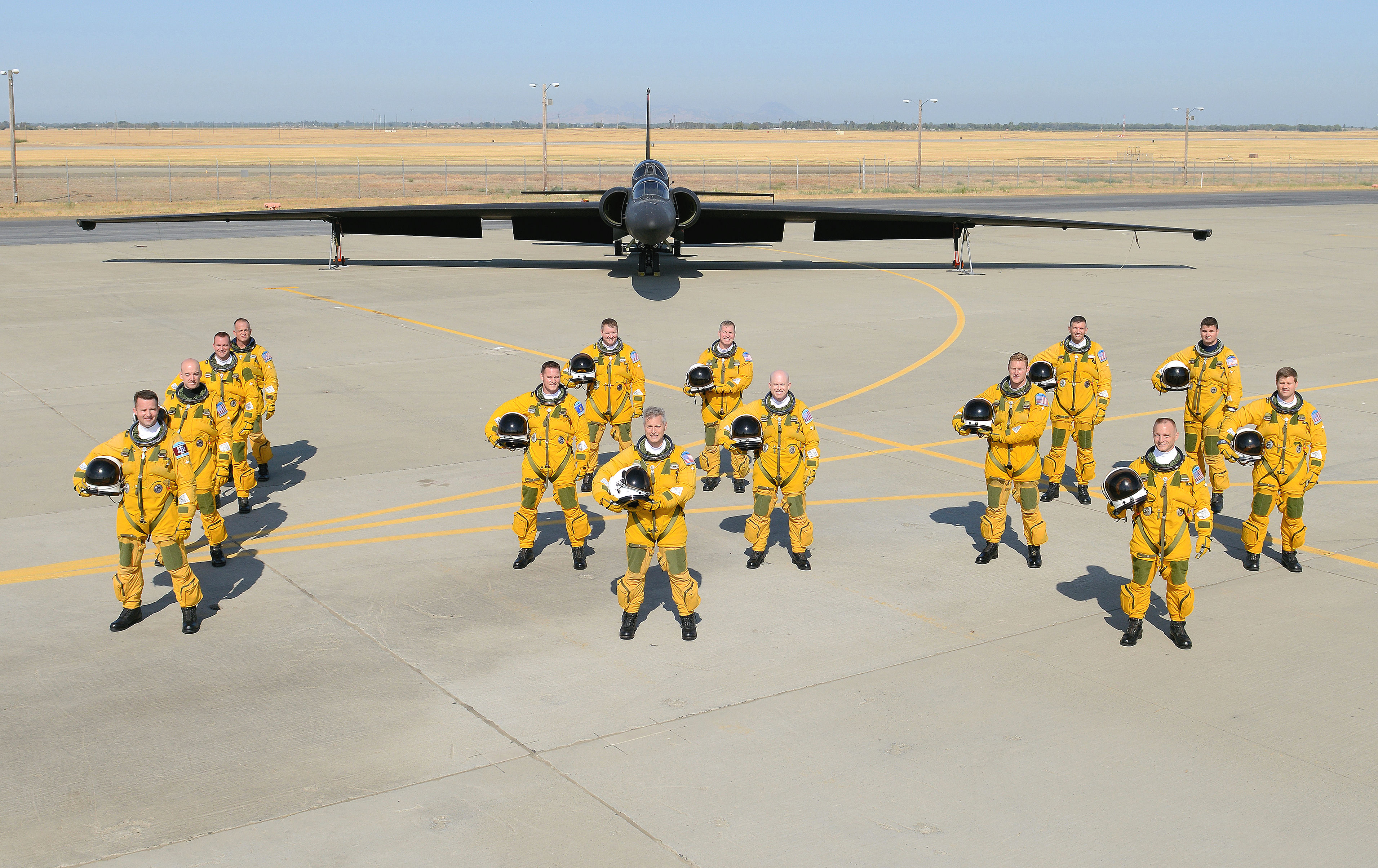 1st Reconnaissance Squadron Fourteen U.S. Air Force U-2S Dragon Lady Intelligence, Surveillance and Reconnaissance Aircraft instructor pilots from the 1st Reconnaissance Squadron pose for a photo in front of a two seat U-2S August 17, 2012 at Beale Air Force Base, Calif. Less people have piloted the U-2 than have earned Super Bowl rings. (U.S. Air Force photo by Mr. John Schwab/Released)